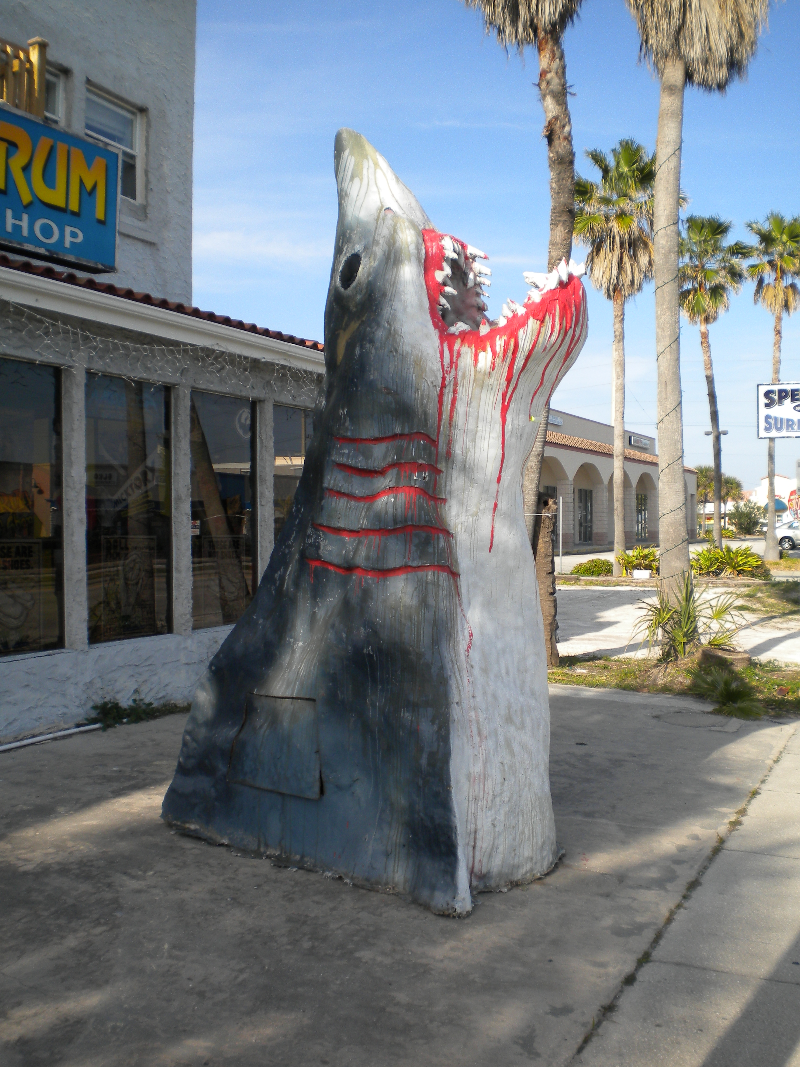 Spectrum Surf Shop Shark in front of the Riomar Apts. building, 130 5th Avenue (U.S. Route 192), Indialantic, Florida.